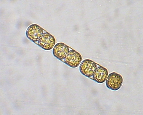 North-West Black Sea, coastal waters, at a depth of 0.5 metre